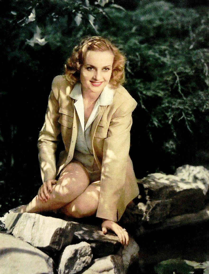 Photo of Carole Lombard published by the New York Sunday News shortly after her death. There's a typo in seller's description of February 8, 1944; this is February 8, 1942. Date can be seen in upper right corner of the uncropped page. The photo was taken at Lombard's home prior to her marriage to Clark Gable in 1939.